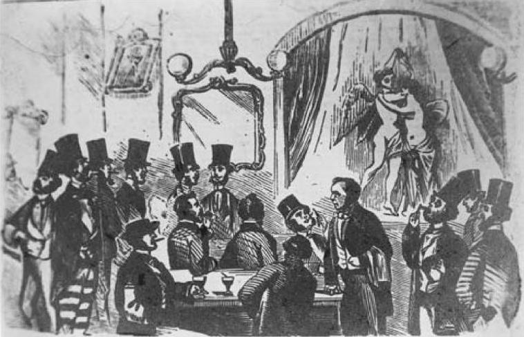 Woodcut of an act at the Coal Hole in the Strand, London, circa 1854